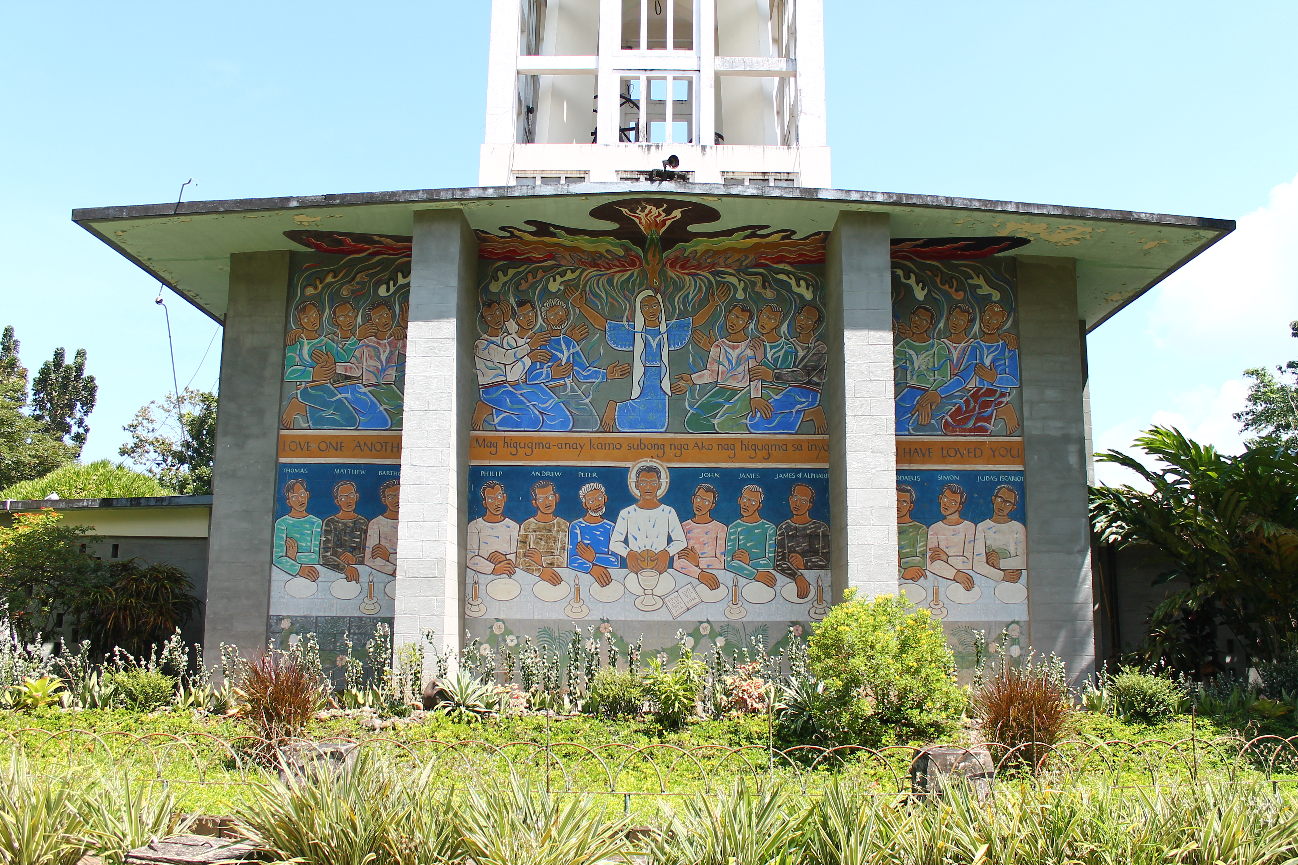 Located inside the Victorias Milling Company in Negros Occidental.